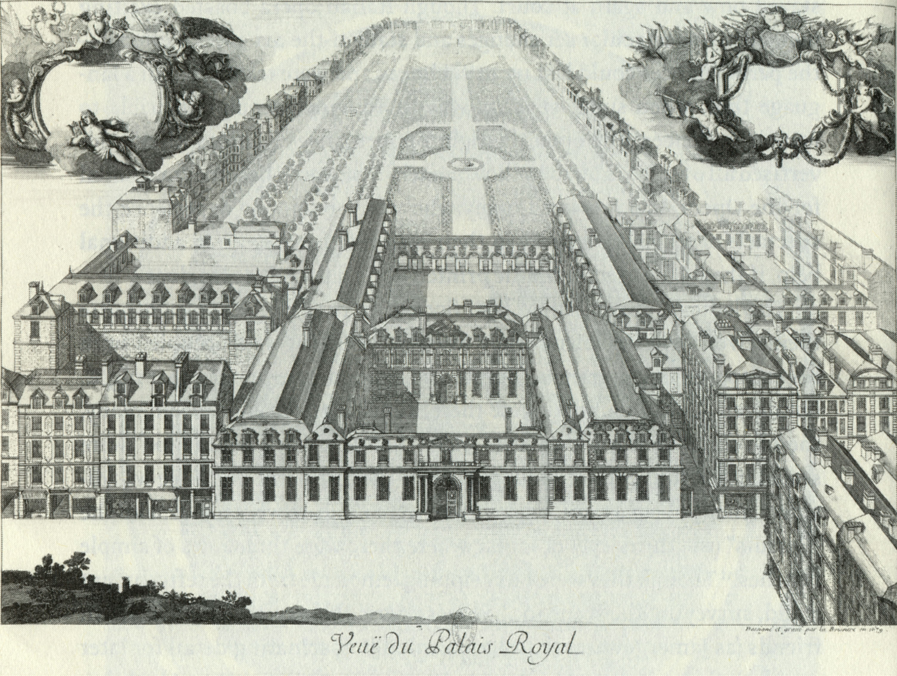 View of the Palais-Royal in Paris in c. 1675.